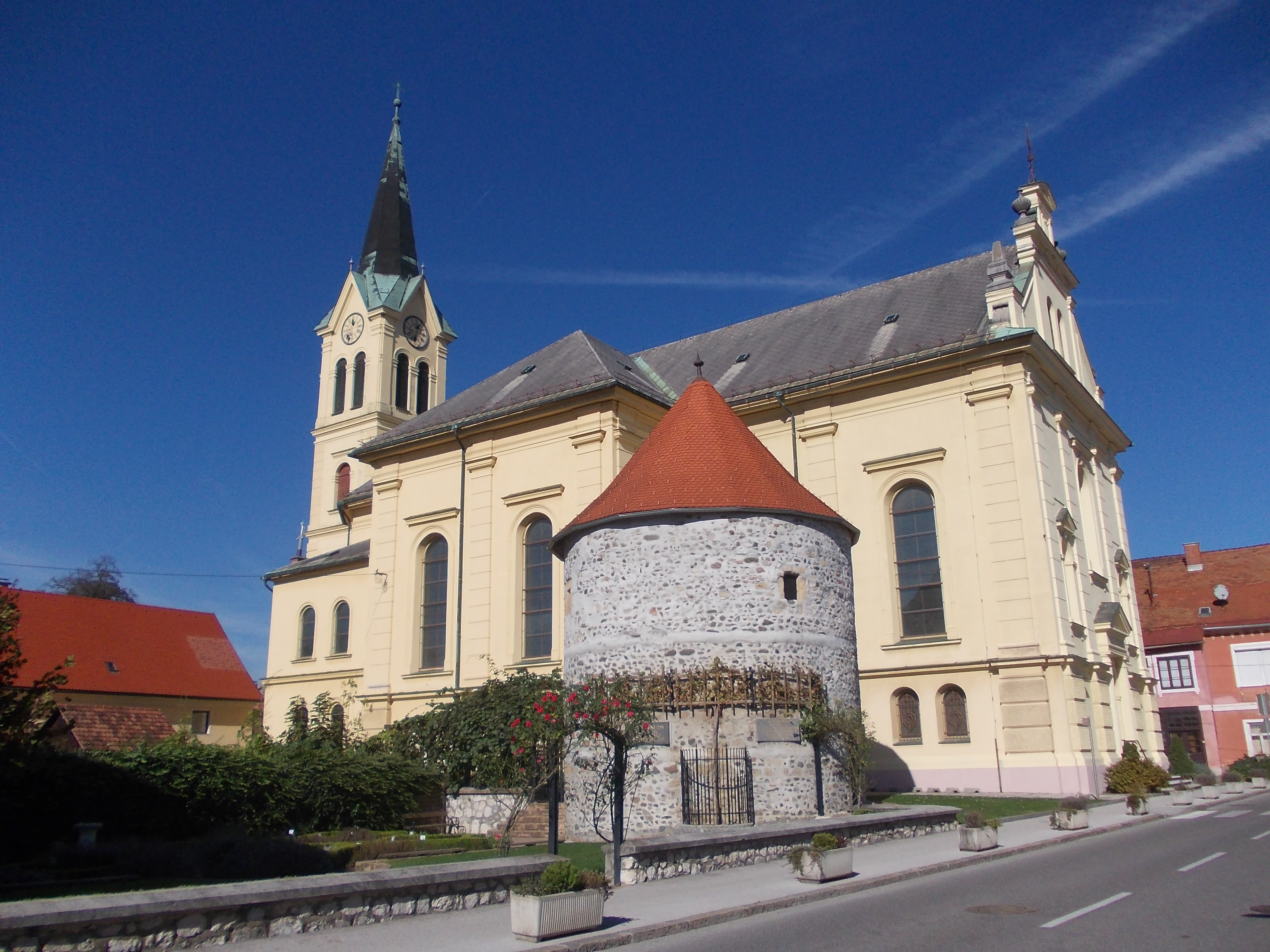 Saint Nicholas Church, Žalec